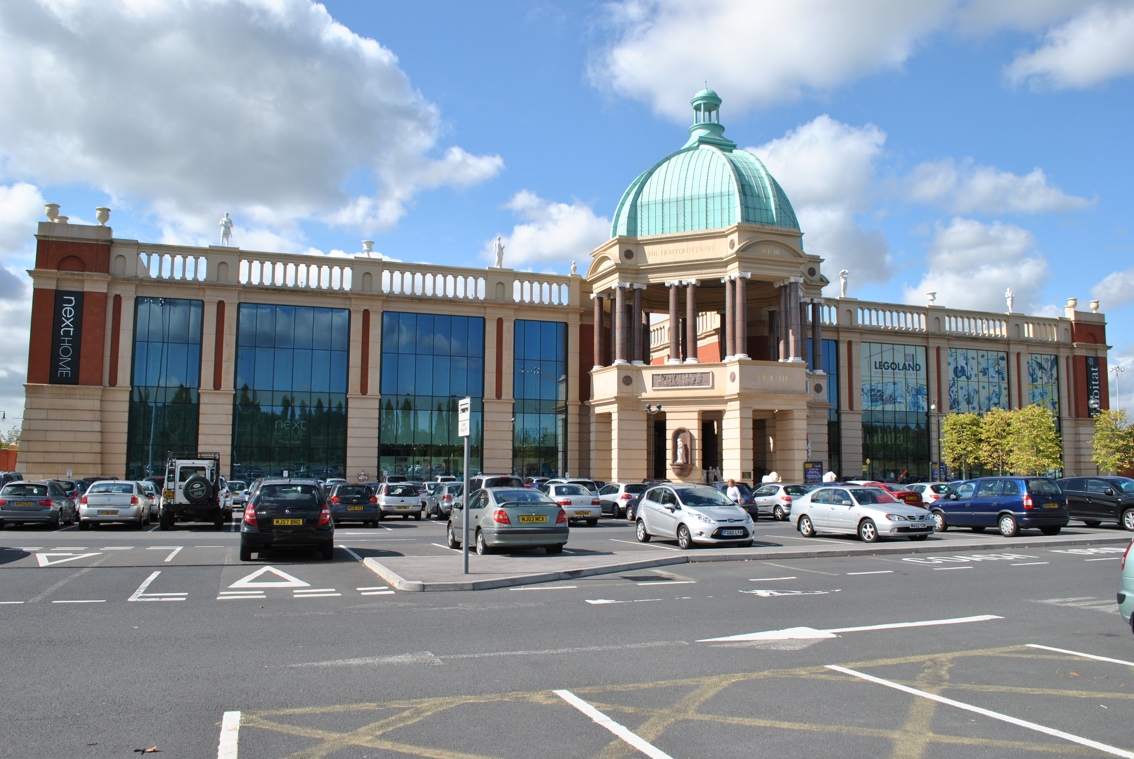 Entrance to Barton Square, Trafford Centre, Manchester.